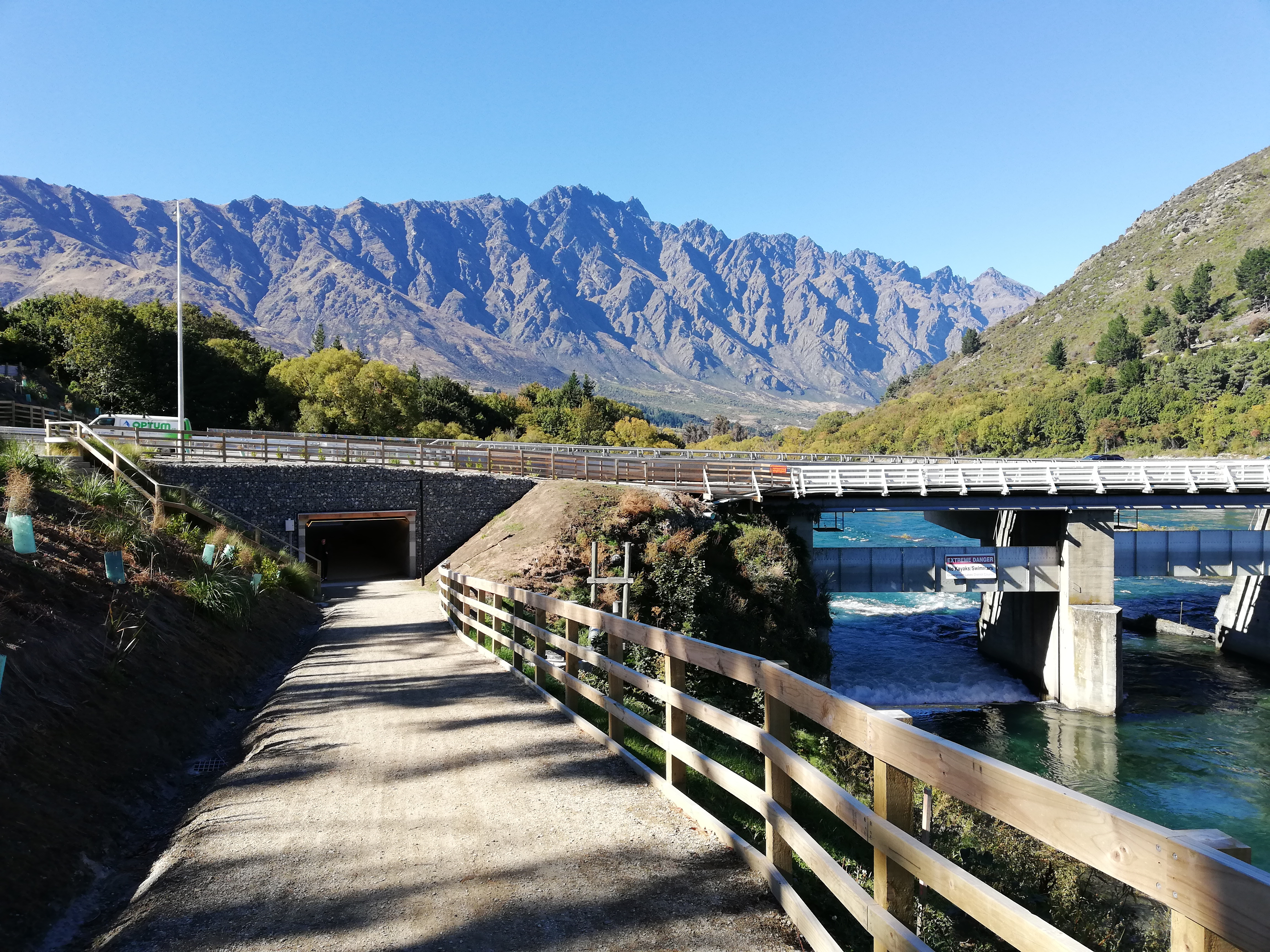 Looking towards The Remarkables this section of the Queenstown Trail goes under the old Kawarau Falls bridge and the newer SH6 vehicle bridge.